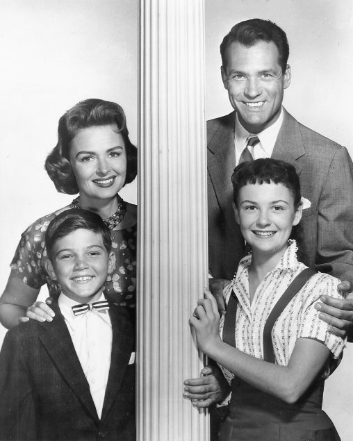 Cast photo from the television program The Donna Reed Show. Standing at back are Donna Reed (Donna Stone), Carl Betz (Alex Stone); in front-Paul Peterson (Jeff Stone) and Shelley Fabares (Mary Stone).